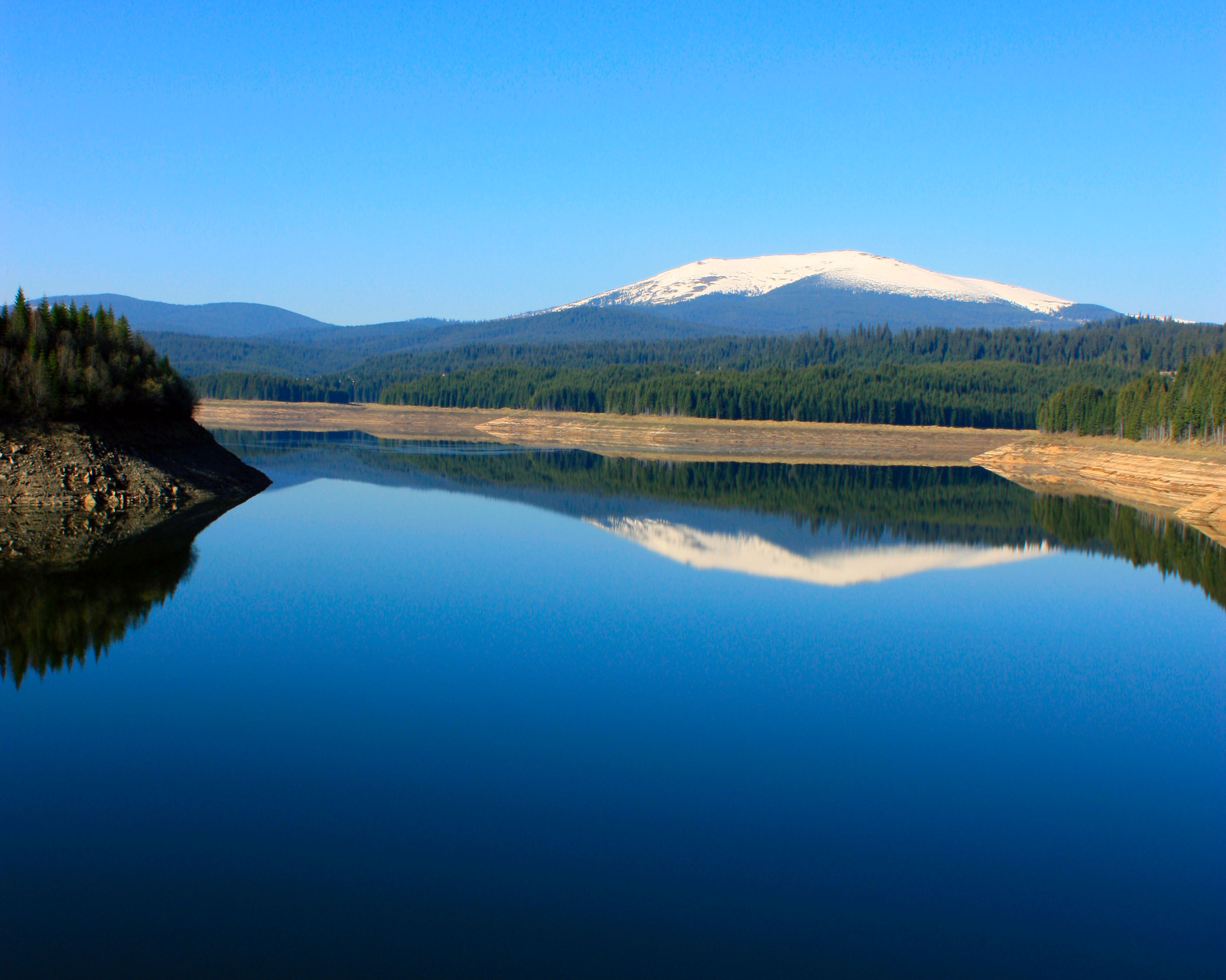 Pătru's peak seen from the dam of lake Oaşa